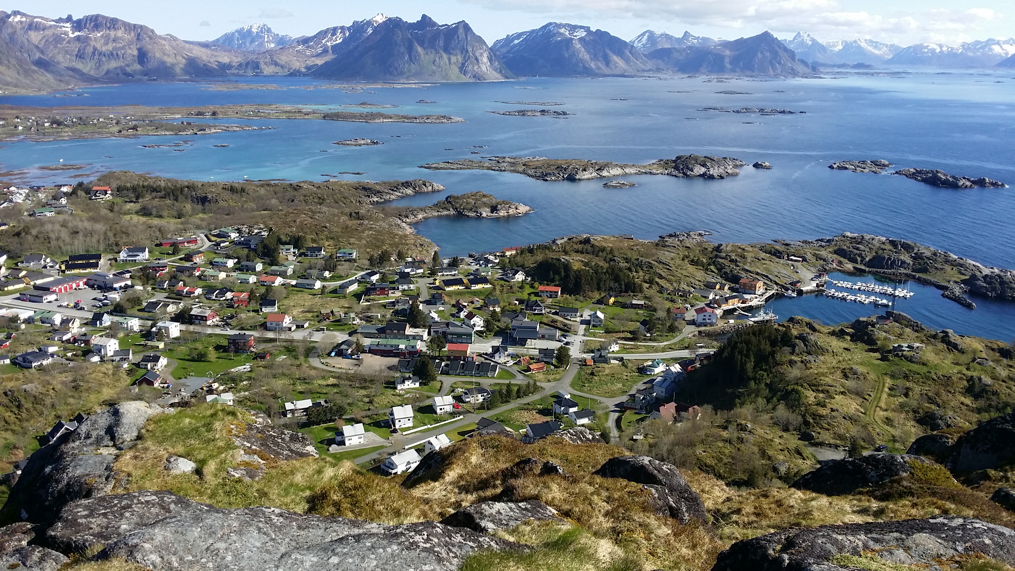 View from the mountain "Kattberget" - Hartvågen in Stamsund